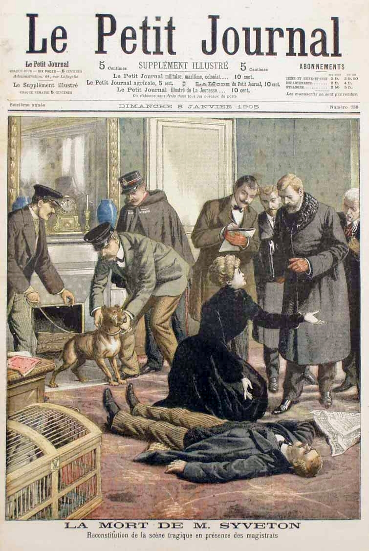 "La mort de M. Syveton. Reconstitution de la scène en présence des magistrats." The death of French politician and historian Gabriel Syveton (1864-1904).